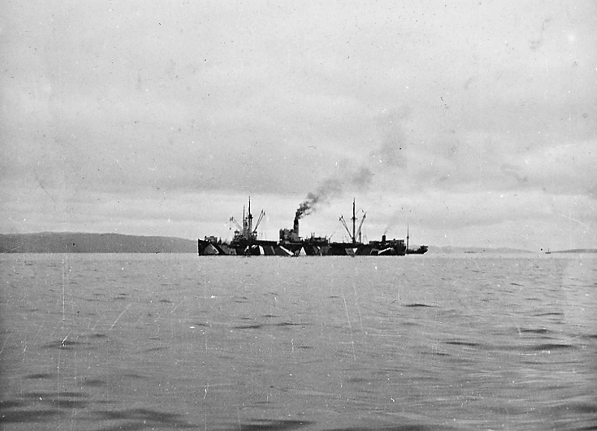 Image from "Photo Album from Terboven's journey to Nothern Norway and Finland 10–27 July 1942" (Mit dem Reichskommissar nach Nordnorwegen und Finnland 10. bis 27. Juli 1942), 375 images uploaded to www. by Riksarkivet (National Archives of Norway) 2012. See scanned album here